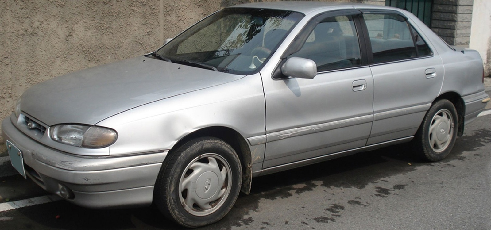 Hyundai New Elantra